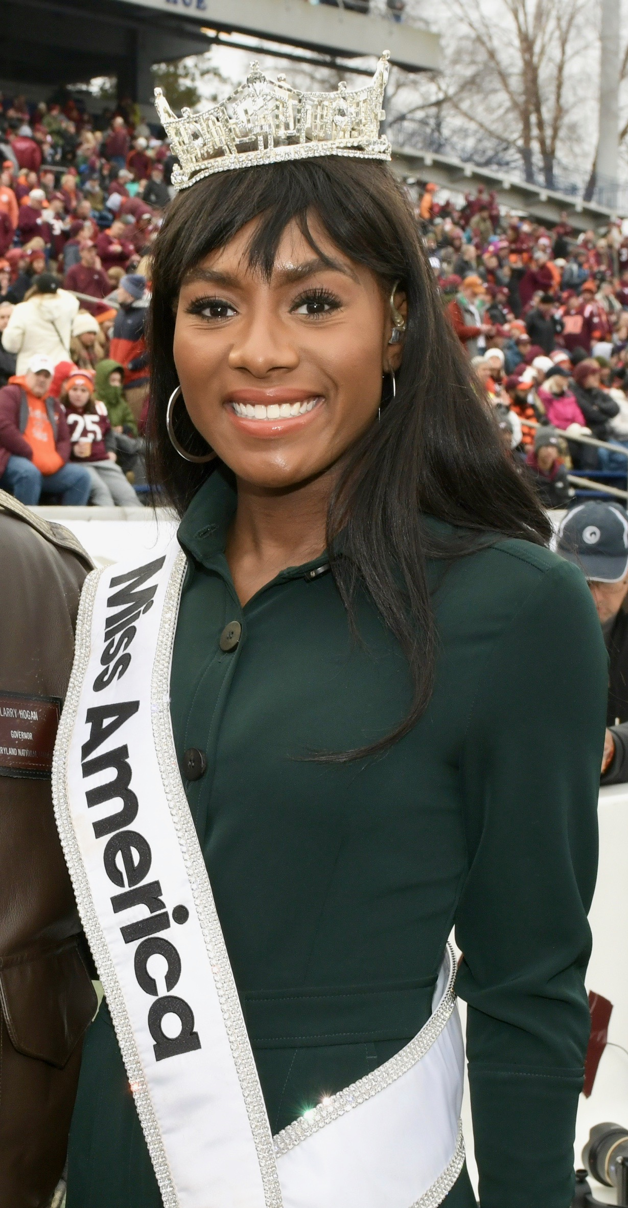 Governor Hogan Tosses the Coin and attends the Military Bowl Game by Tom Nappi,Joe Andrucyk at Navy Marine Corps Stadium, Annapolis MD 21401